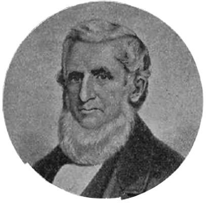 John Wood, Gov. of Illinois 1860-61